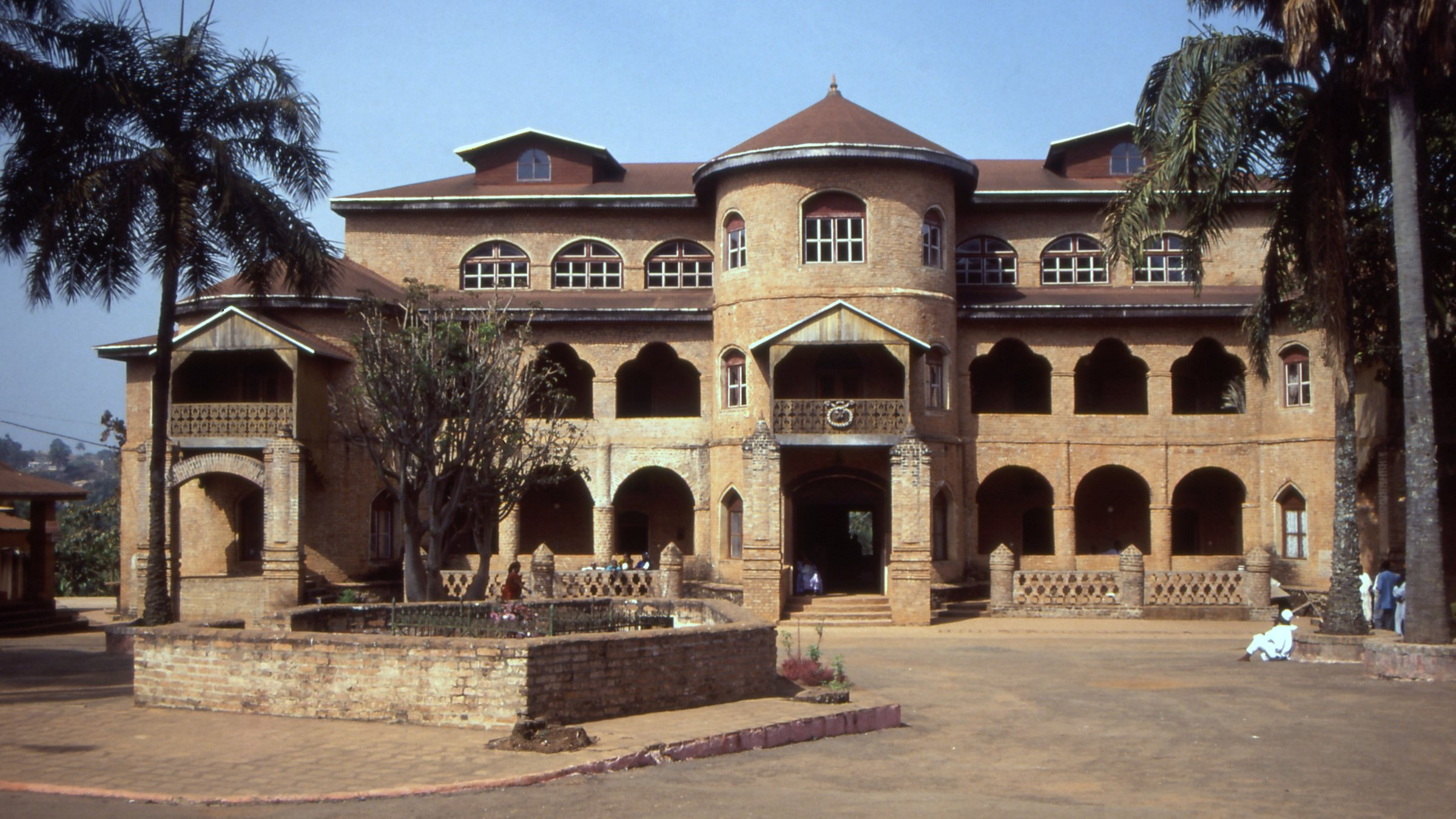 Sultan's palace at Foumban, Cameroon, 1991